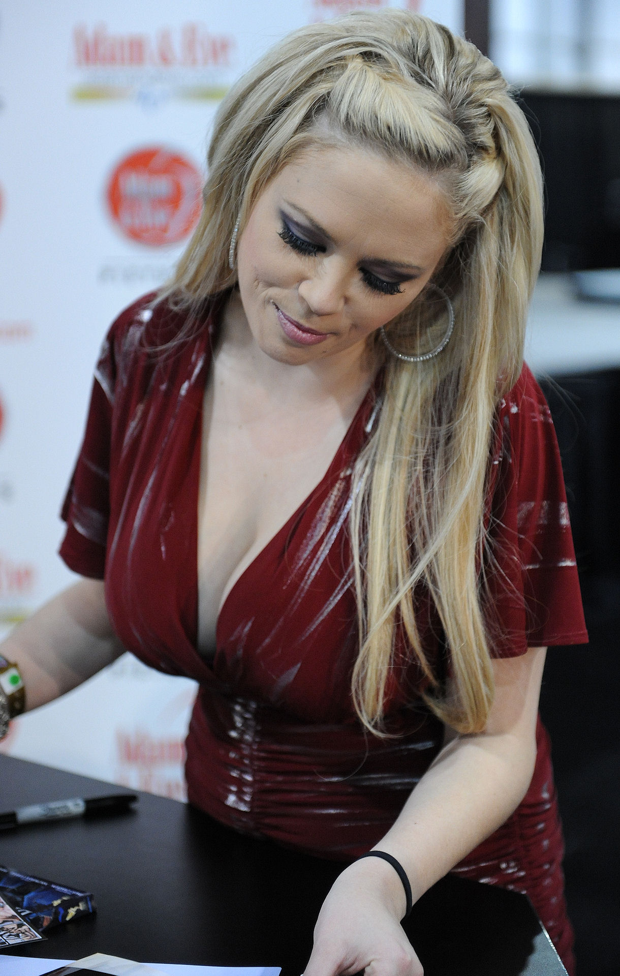 Katie Kox at AVN Adult Entertainment Expo 2011